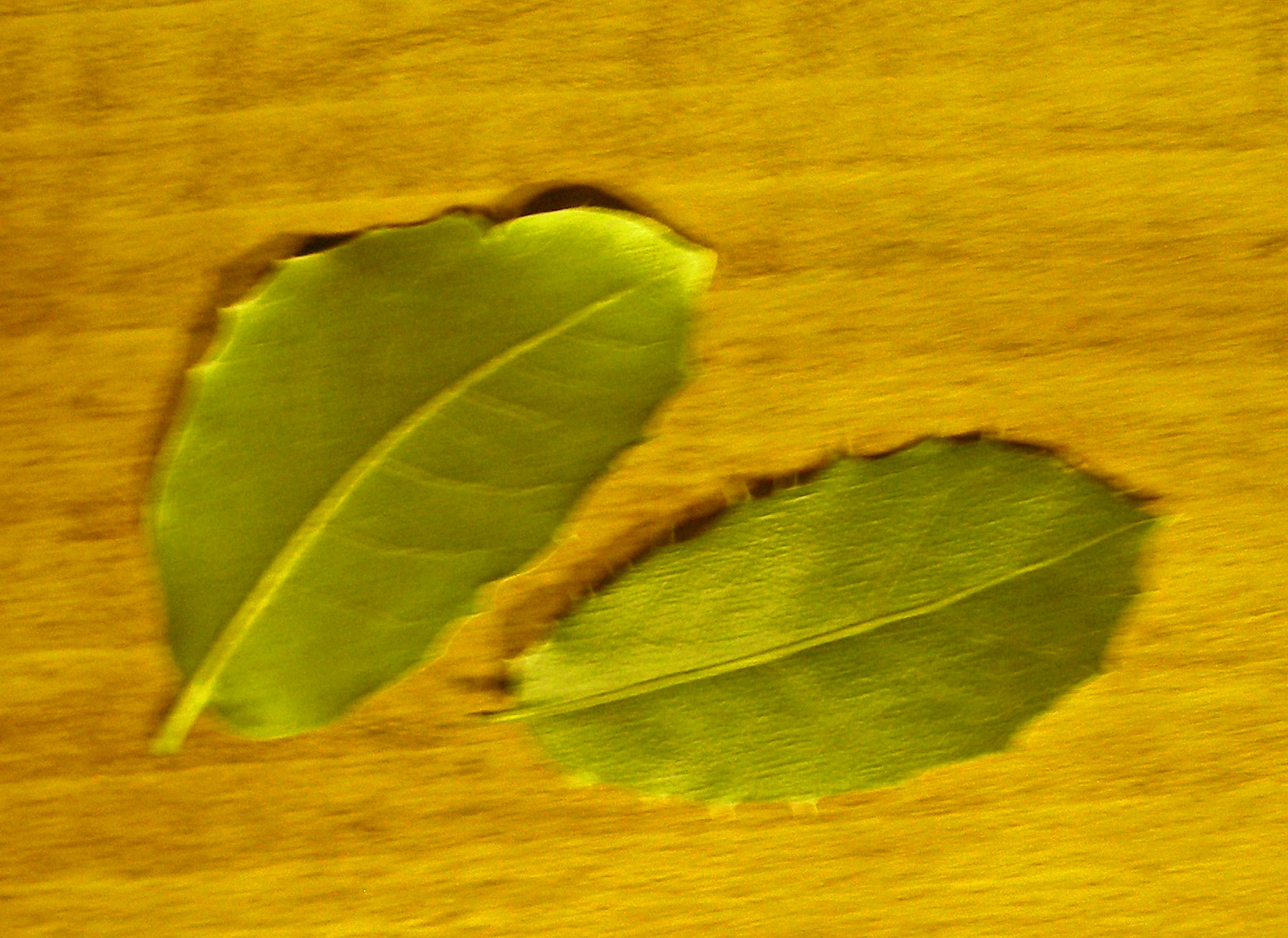 "Q chrysolepis" leaves on unrelated background